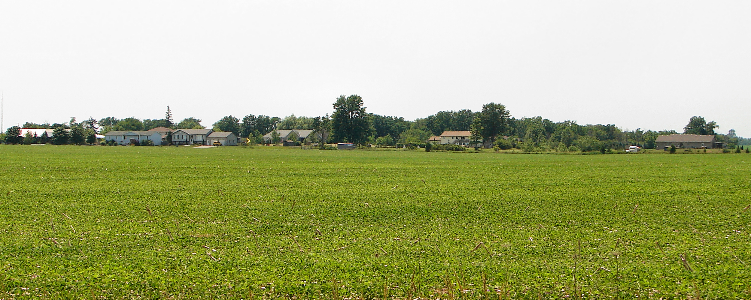 View of Adelaide (Adelaide Metcalfe Township), Ontario, Canada